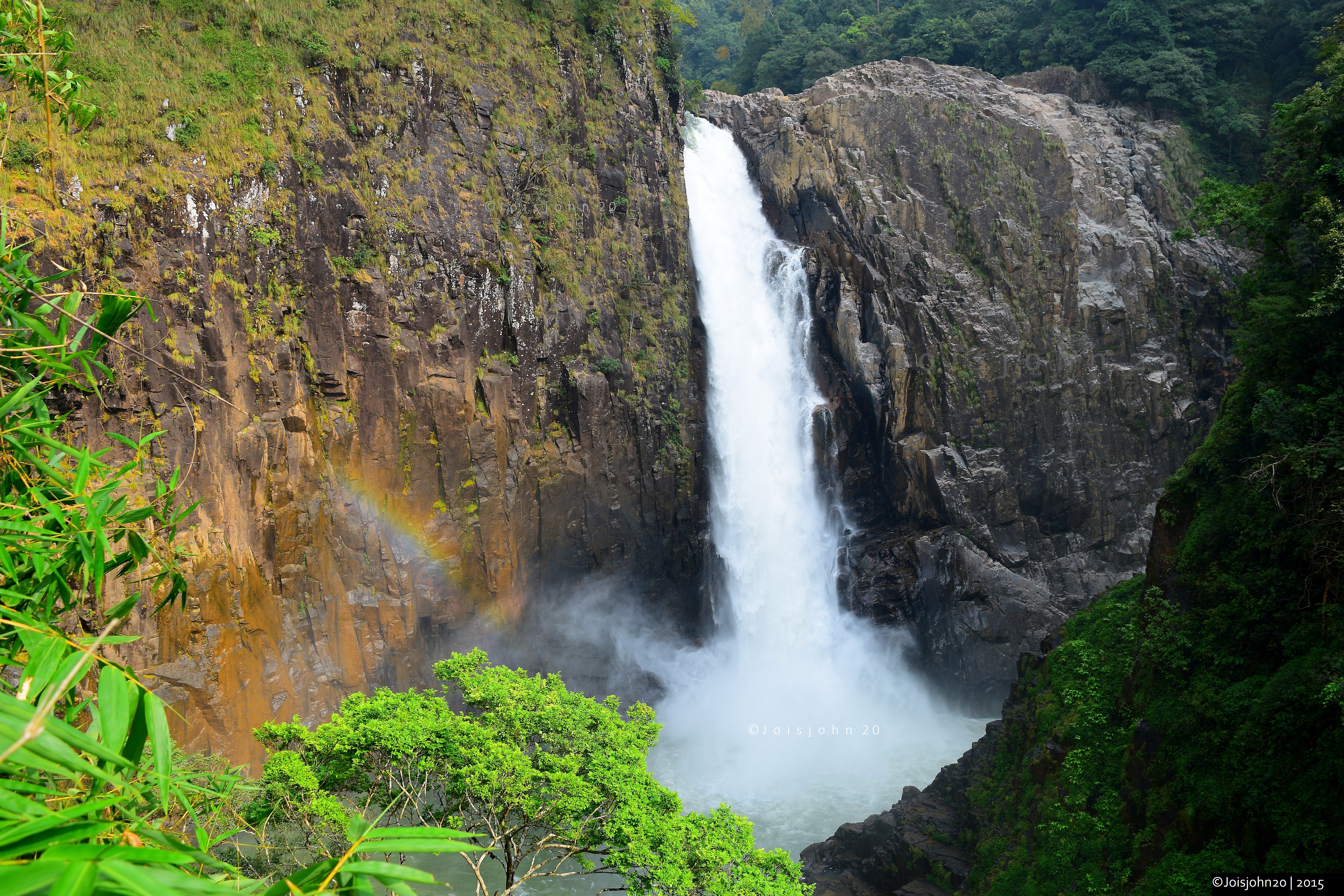 waterfall